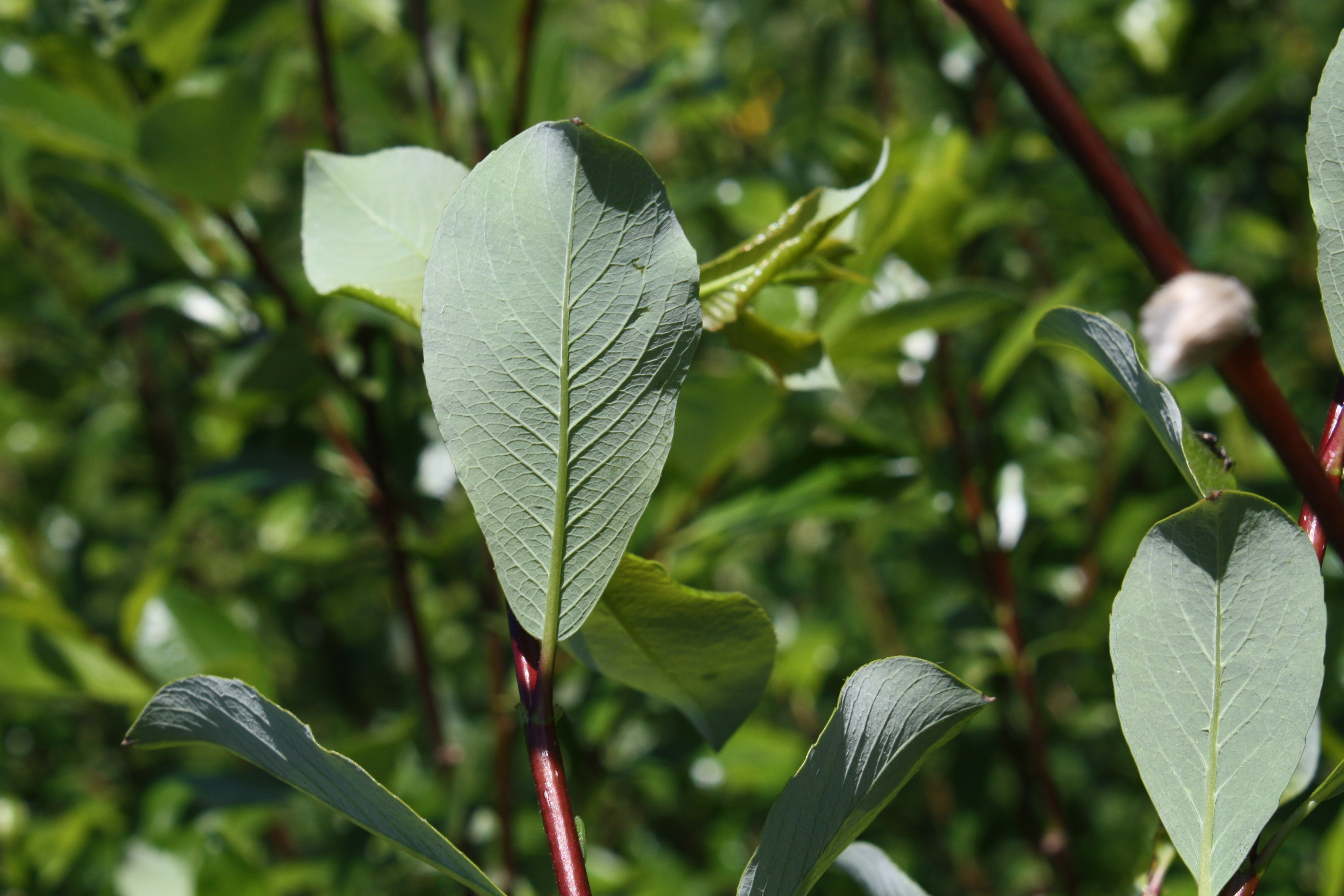 Tea-leaved Willow (Salix phylicifolia) - Leaves from the underside - Kerava, Finland